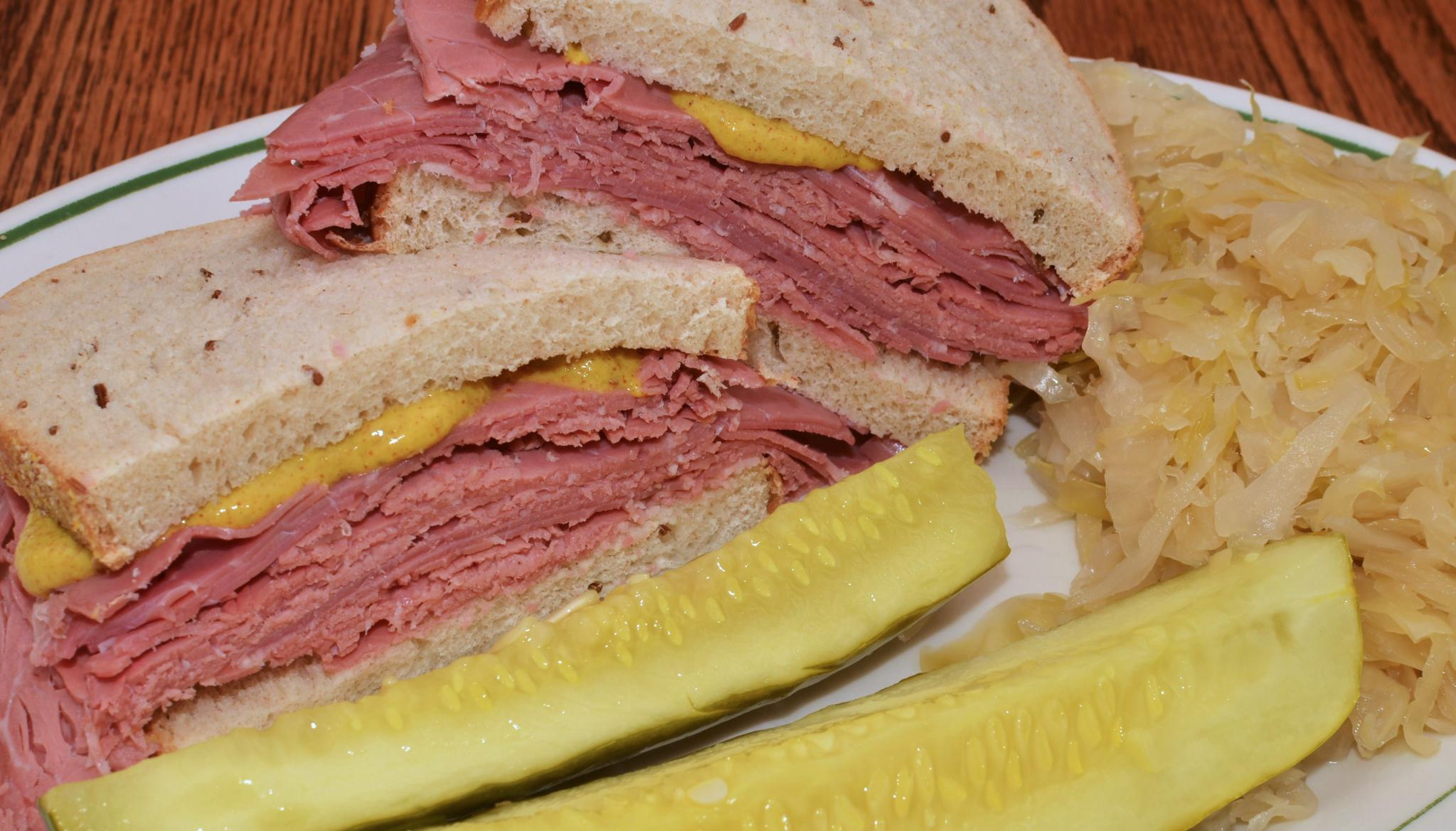 Mmm... corned beef on rye with a side of 'kraut